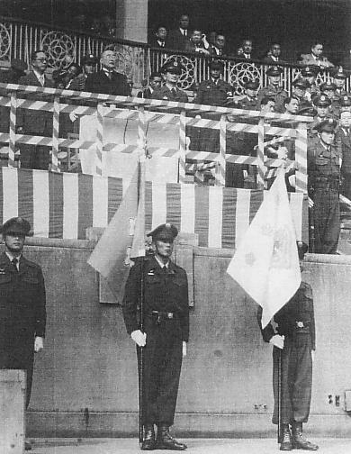 Military parade celebrating establishment of NSF(National Safety Force of Japan)